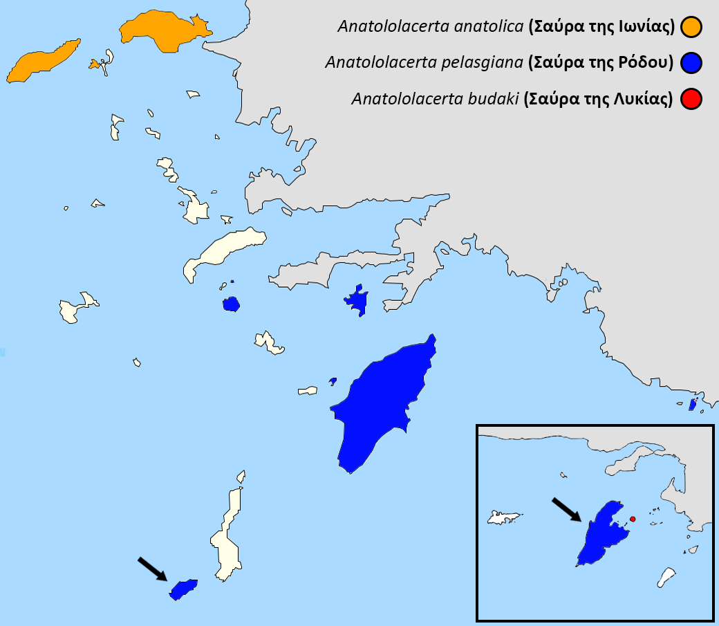 Anatololacerta distribution in Greece